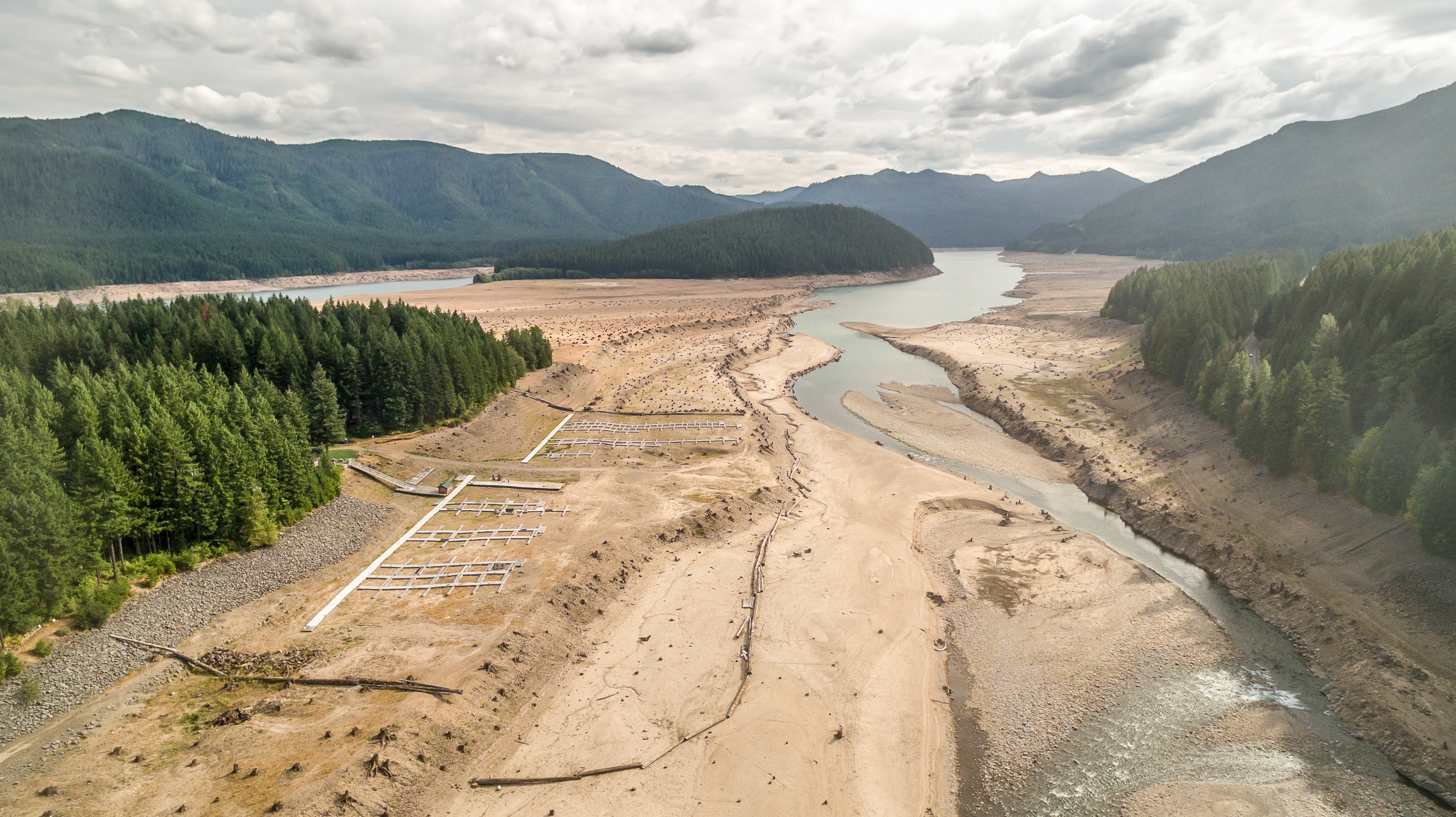 Aerial image of Detroit Lake as viewed from above the eastern side of the lake, near the town of Detroit.